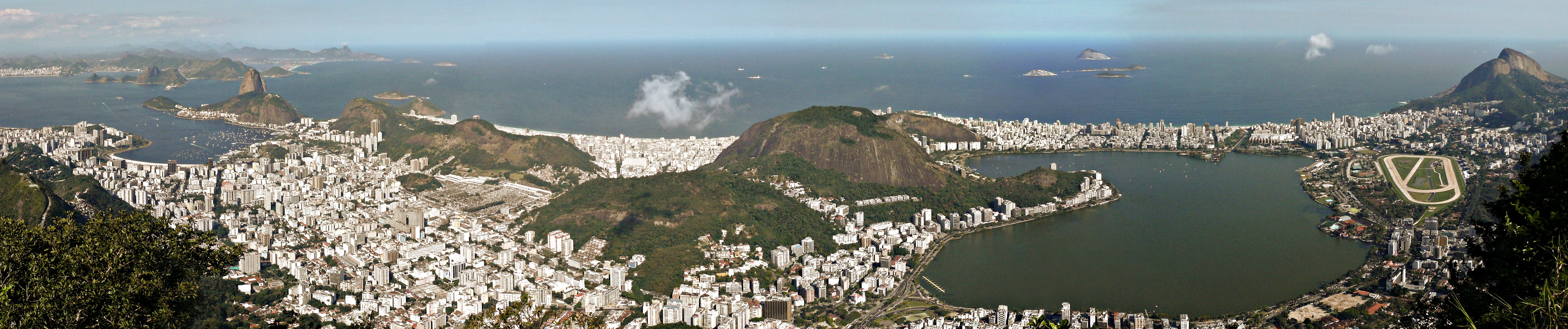 ASCII 8 images, Size: 9023 x 2447, FOV: 162.87? x 44.18?, RMS: 6.00, Lens: Standard, Projection: Spherical, Color: LDR